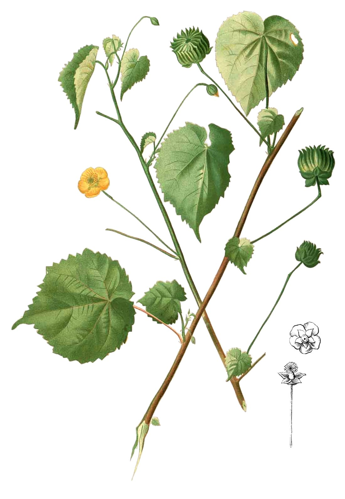 Plate 557 from book